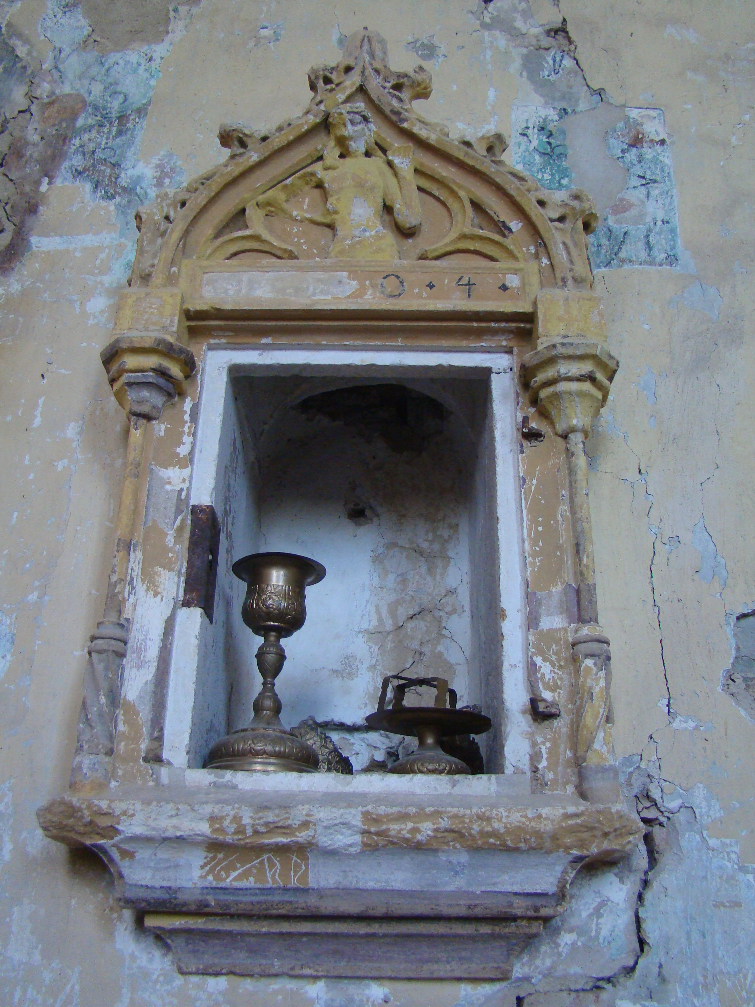 Lutheran church in Tărpiu, Bistrița-Năsăud county, Romania